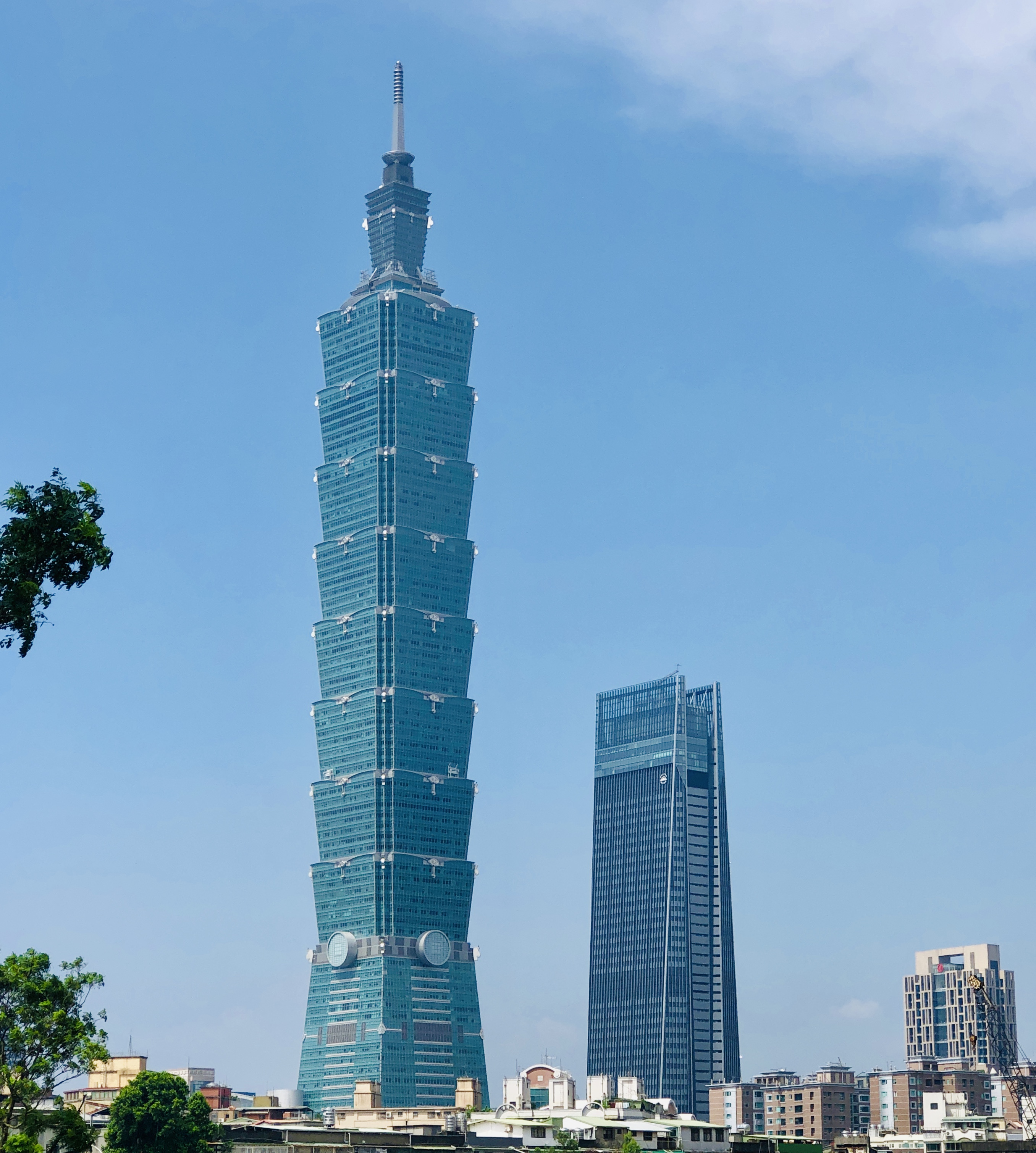 Taipei 101 and Taipei Nan Shan Plaza on a sunny day.